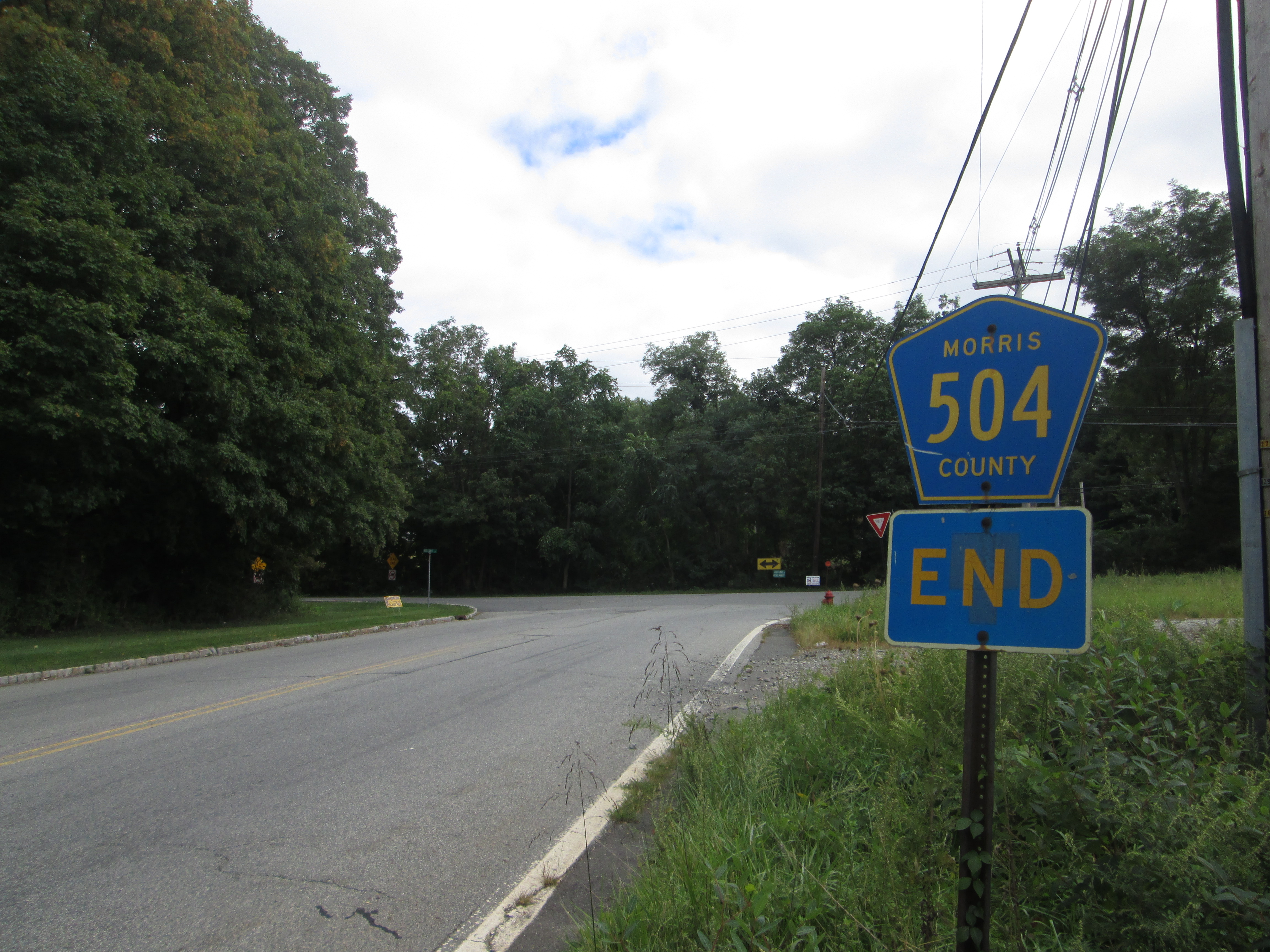 County Route 504's western terminus, a junction with County Route 655 Alternate in Montville, New Jersey.